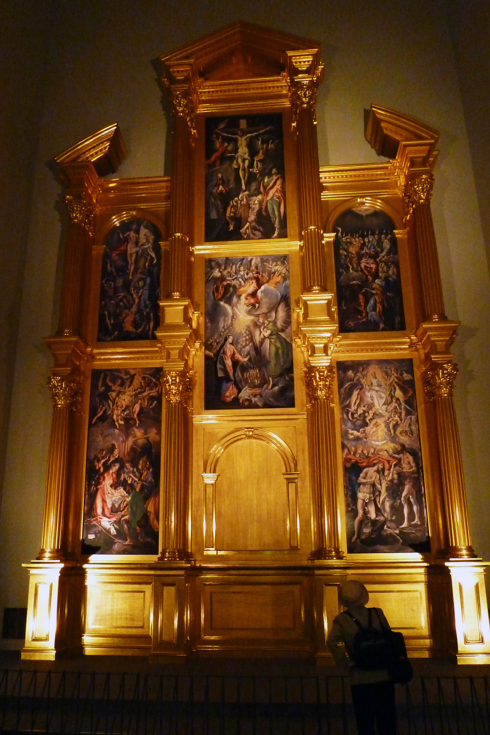 Otsuka Museum of Art, Naruto, Tokushima prefecture, Japan.